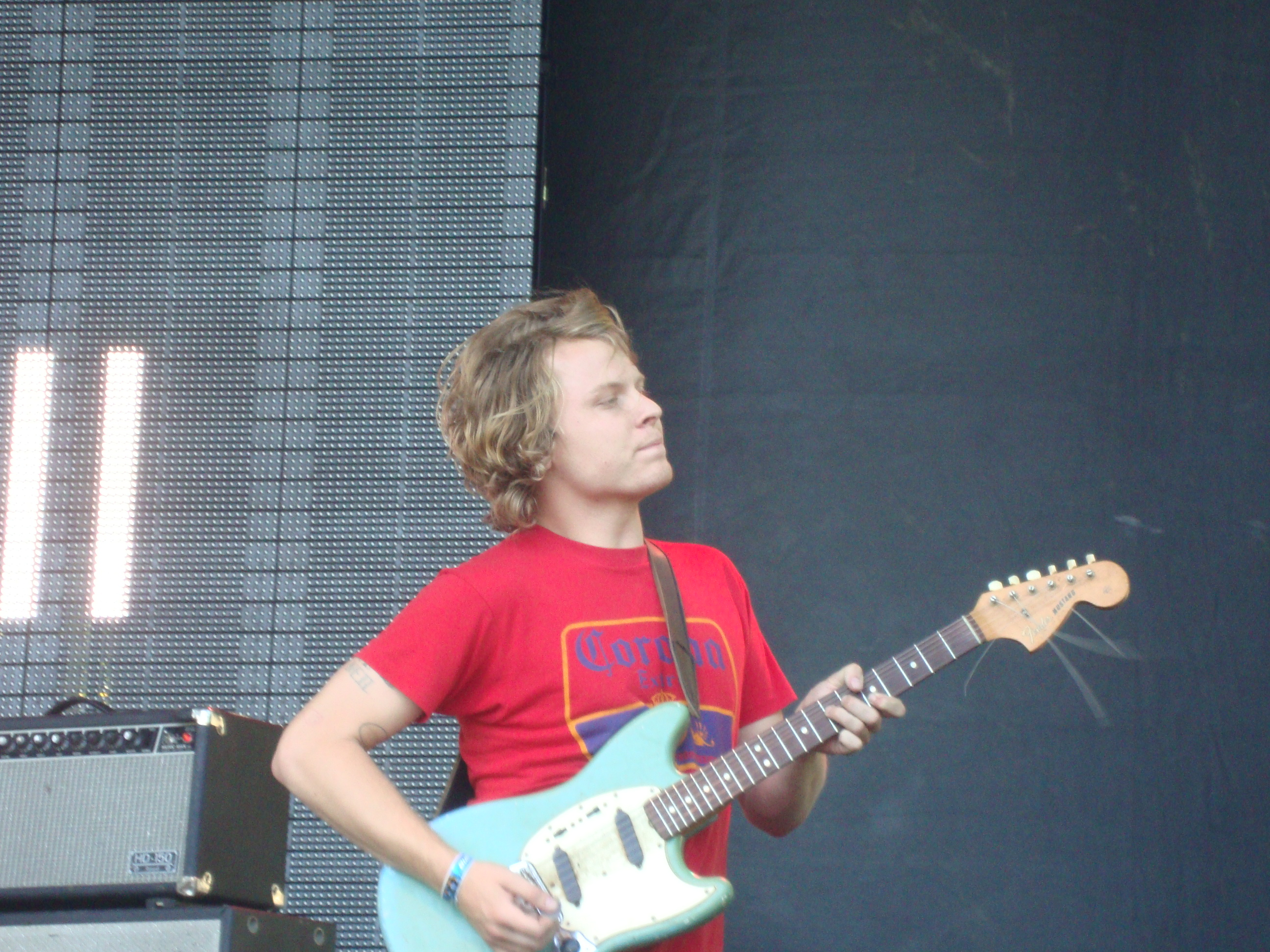 Ty Segall at the Bumbershoot Music and Arts Festival, Seattle, WA